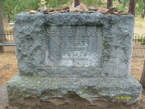 Tombstone of Seth Bullock in Deadwood Cemetery